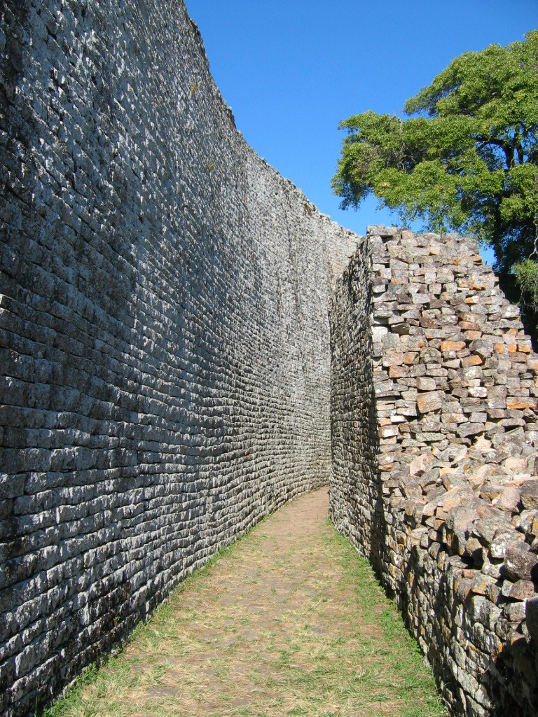 The housings are made of stacked stones, Zimbabwe